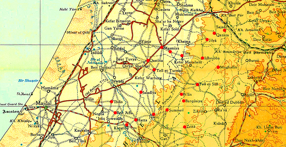 Operation An-Far